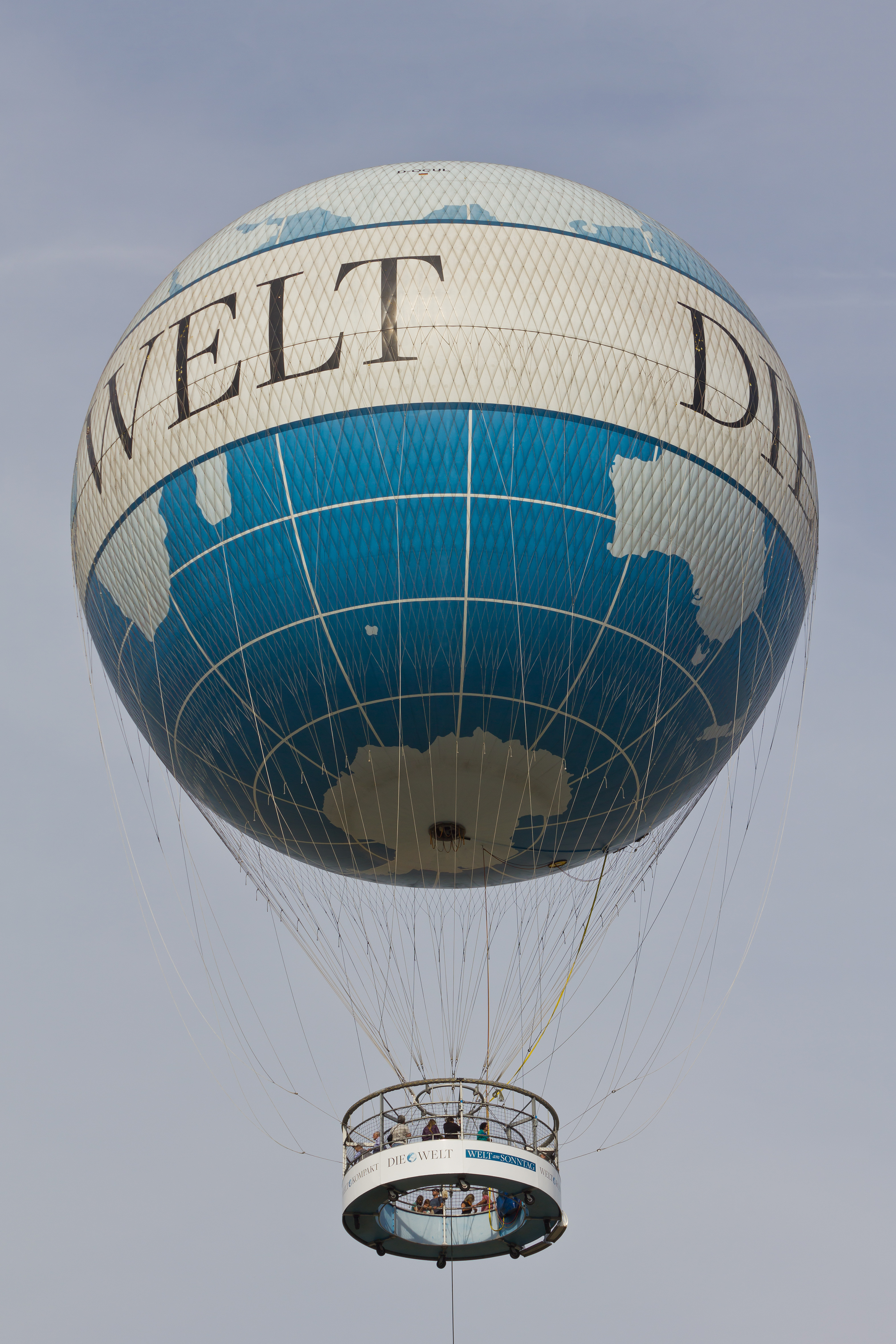 Photograph of the Berlin Hi-Flyer in flight